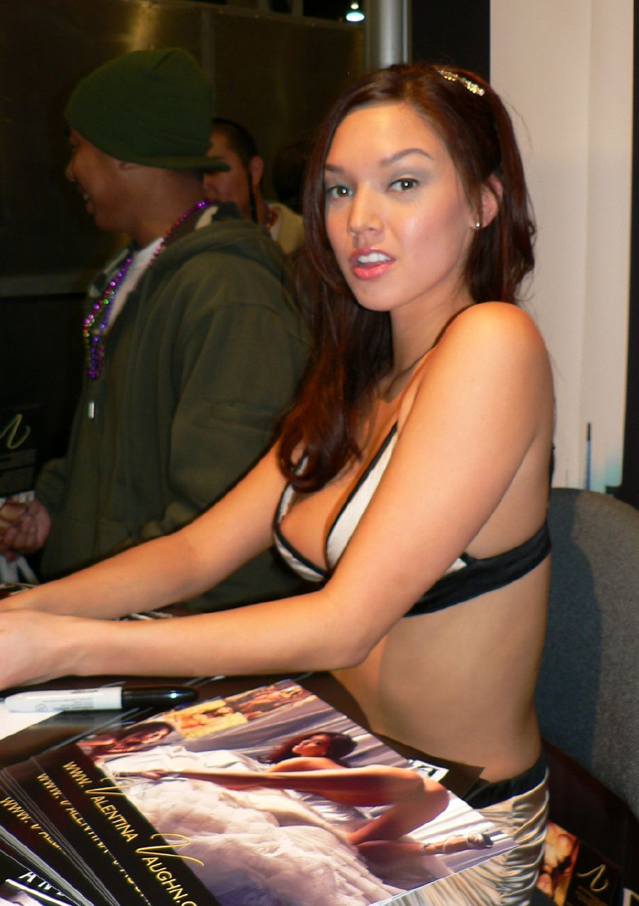 Valentina Gutierrez :Z taking a moment for a quick snapshot. Adult Entertainment Expo 2006, Carrete, En la calle.